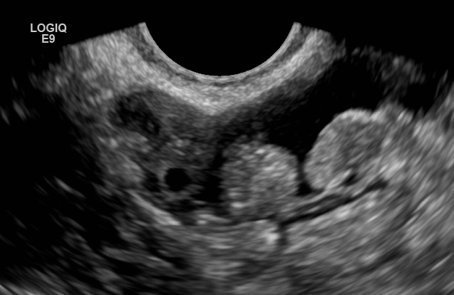 2 epiploic appendages next to ovary in ultrasound